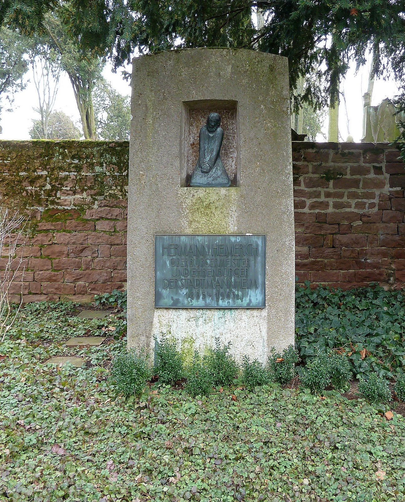 Grave of Heimerich